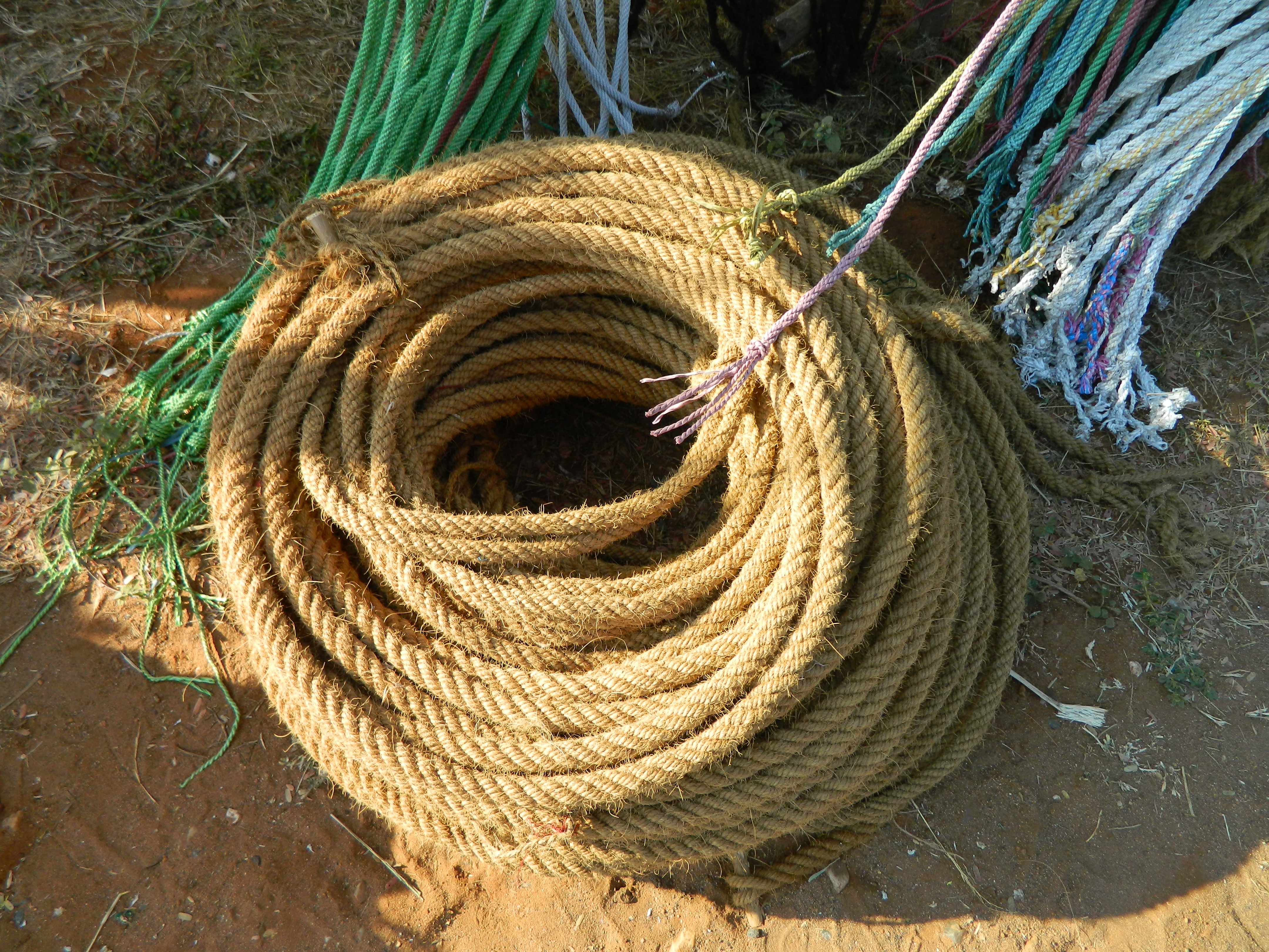 A coconut coir Rope